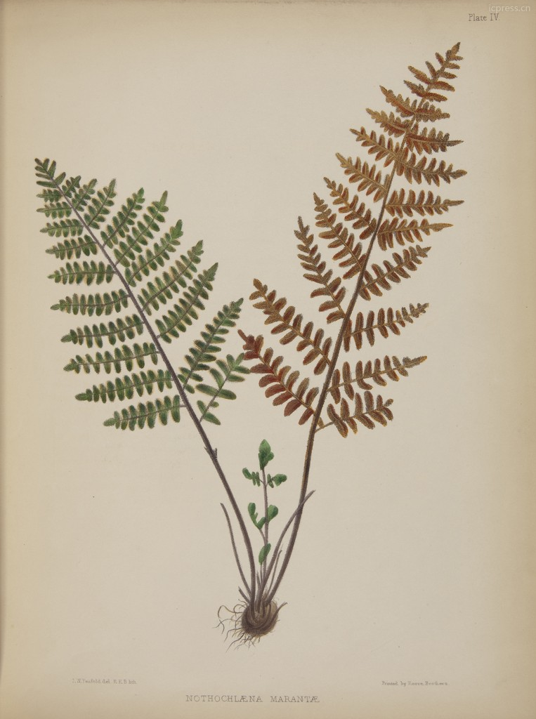 Published in PENFOLD, Jane Wallas (fl. 1820-1850, artist) and William Lewes Pugh GARNONS (1791-1863). Madeira Flowers, Fruits, and Ferns. London: Reeve, Brothers, 1845.